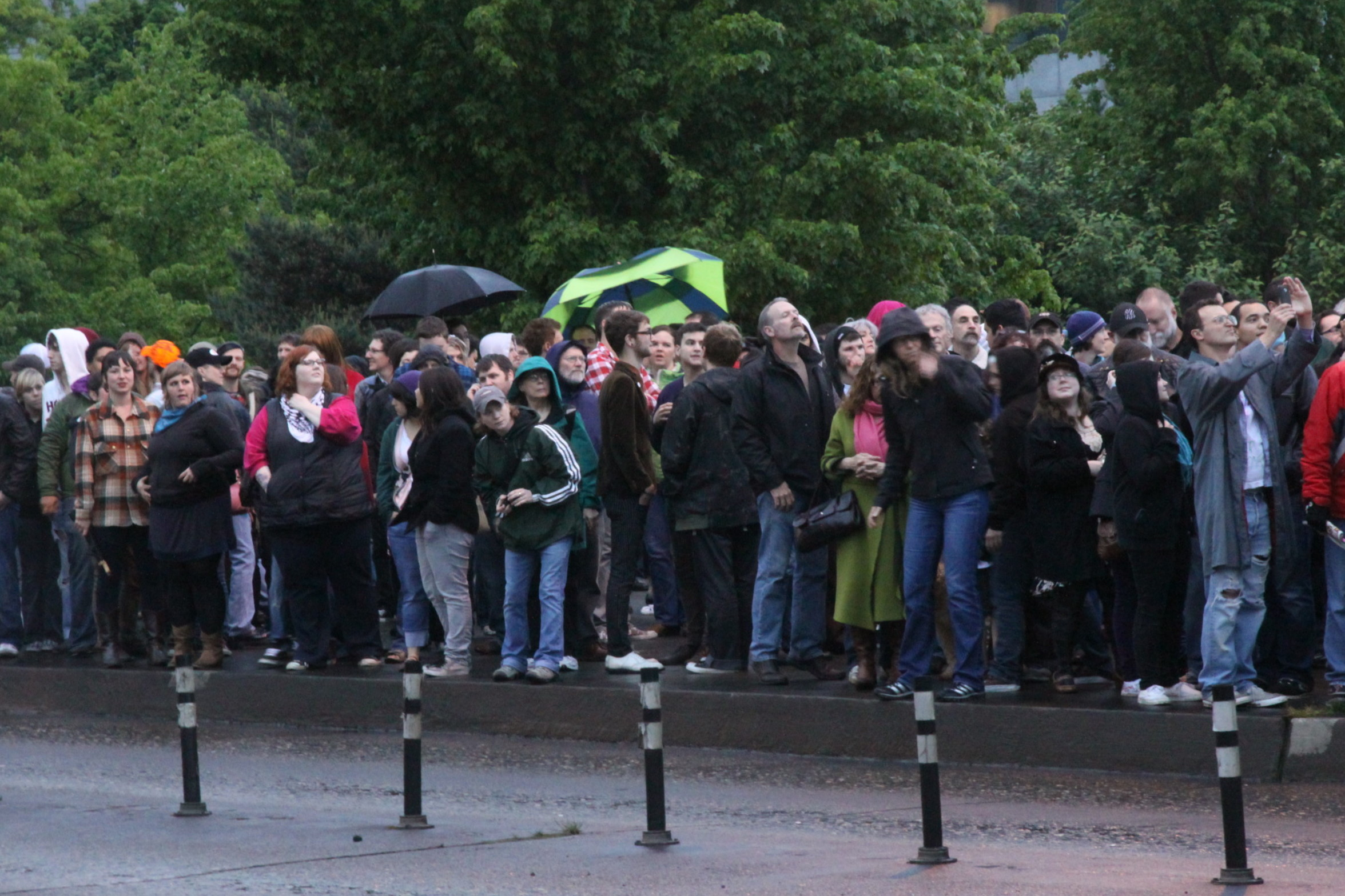 Crowd on the Hawthorne Bridge during the Hands Across Hawthorne rally in Portland, Oregon